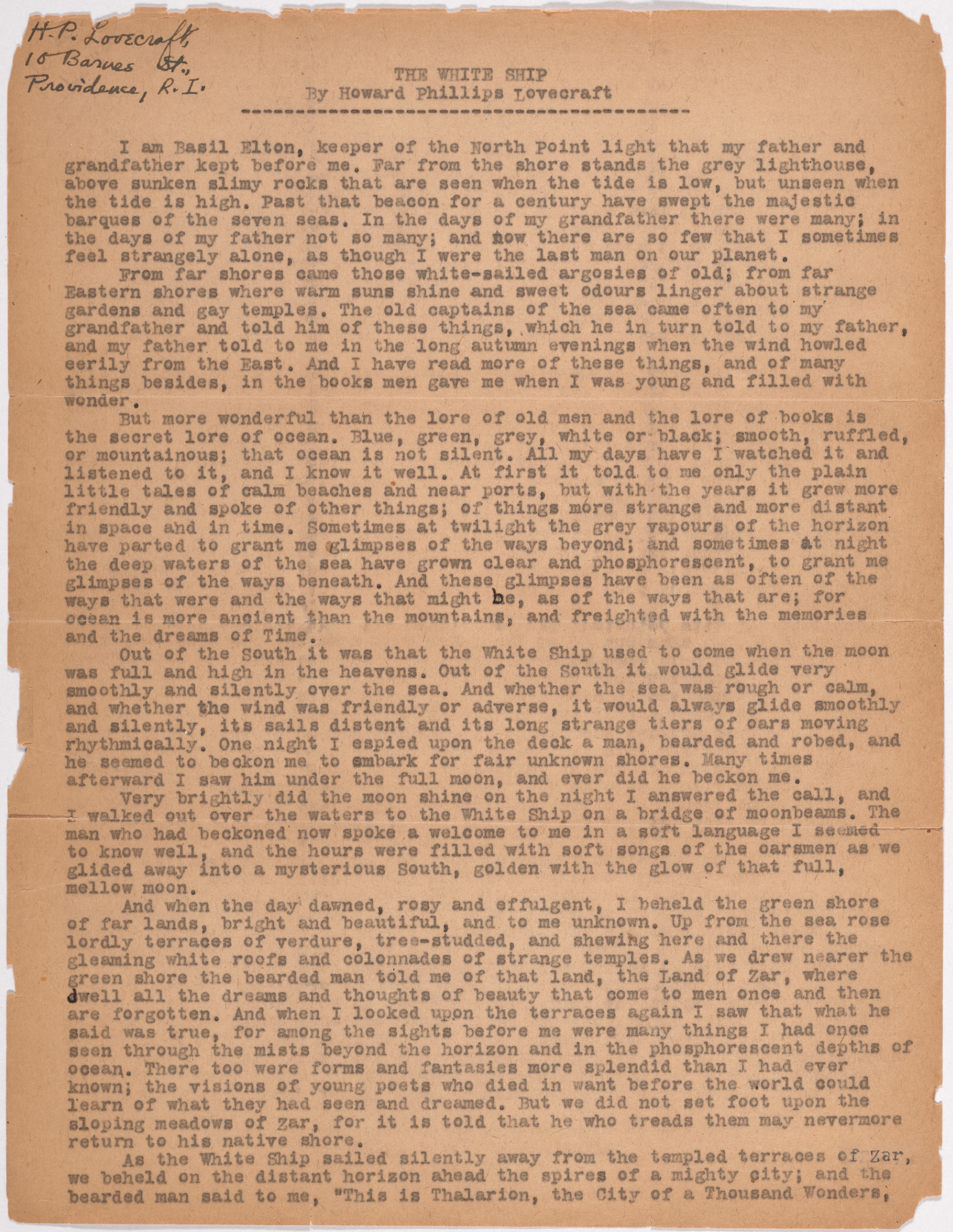 First page of the manuscript The White Ship.